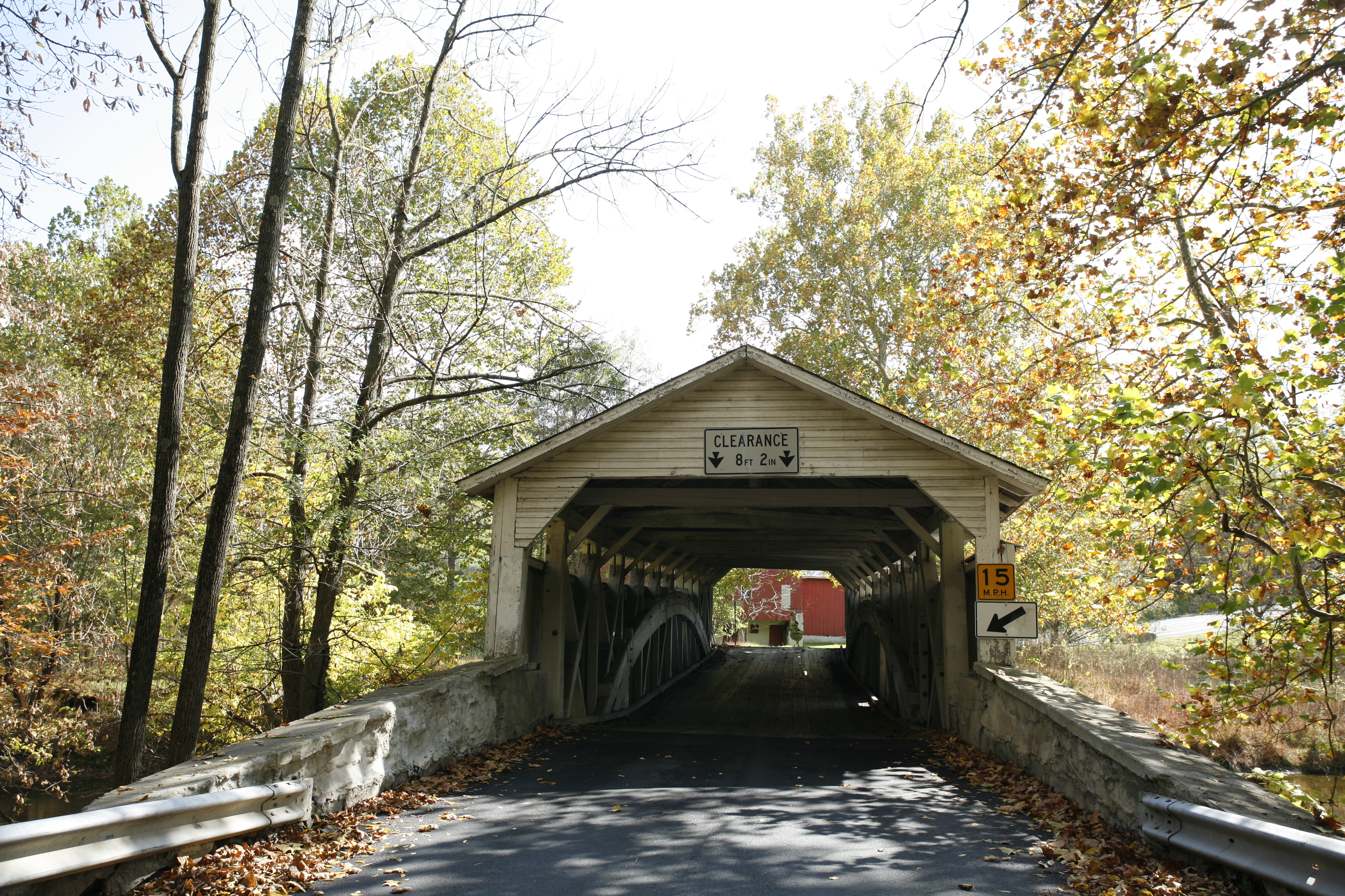 Schlicher Covered Bridge built in 1882 over Jordan Creek in North Whitehall Township, Lehigh County, Pennsylvania, USA.